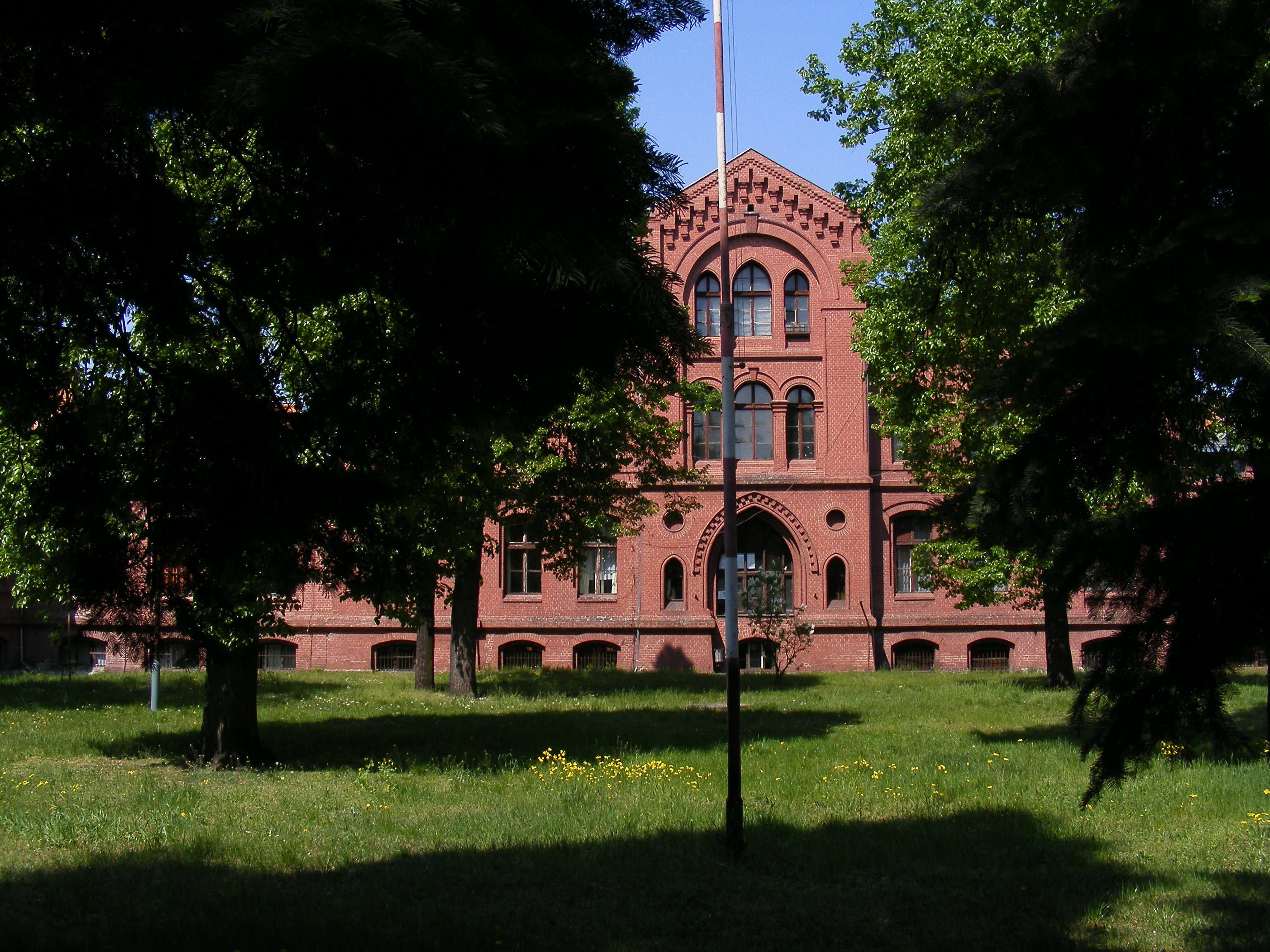 hospital in Żrardów